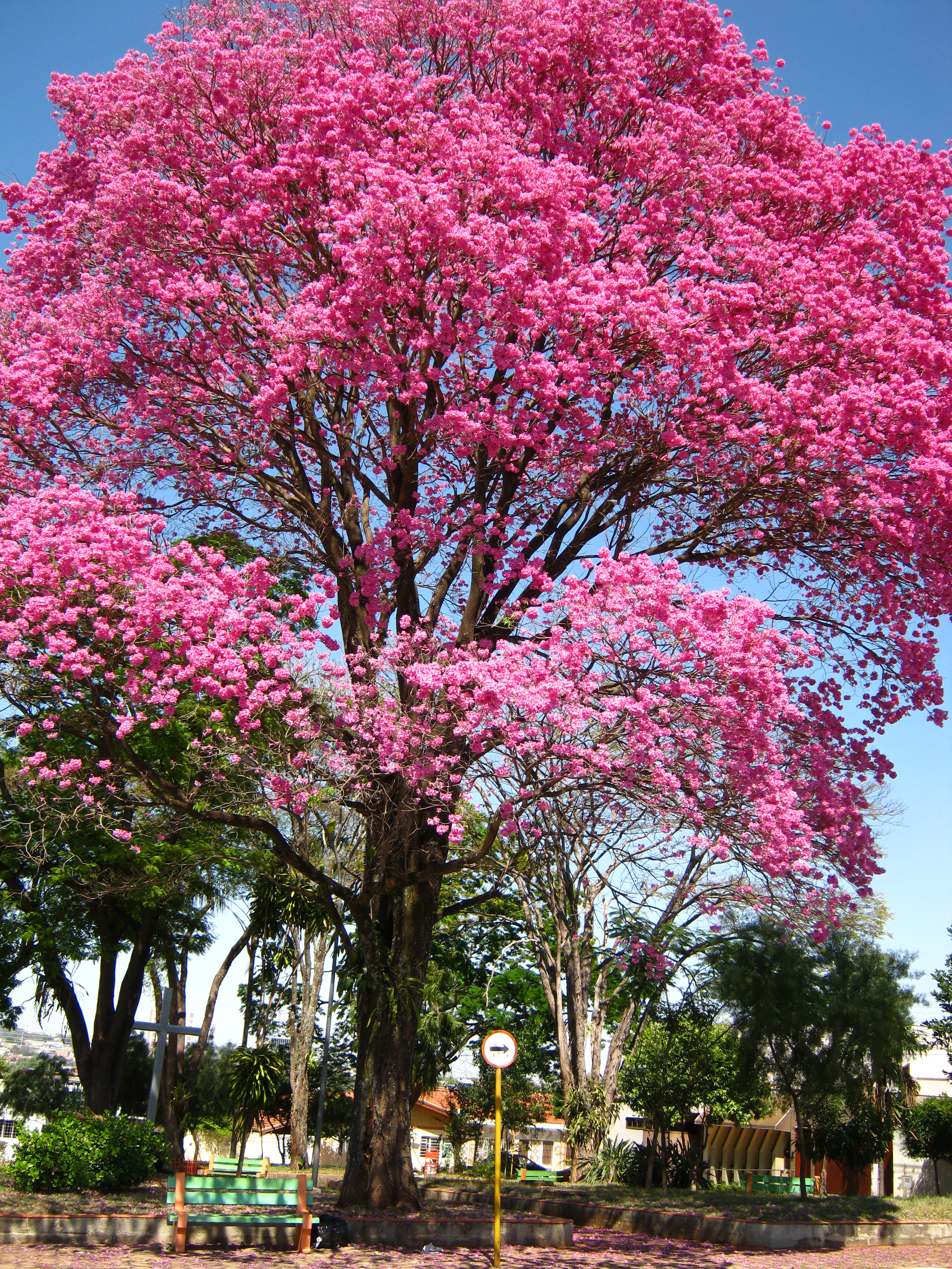 Mogi-Guaçu, São Paulo: Pink Ipê (Handroanthus impetiginosus), symbol tree of Brasil, so big that can be seen from almost the whole city.